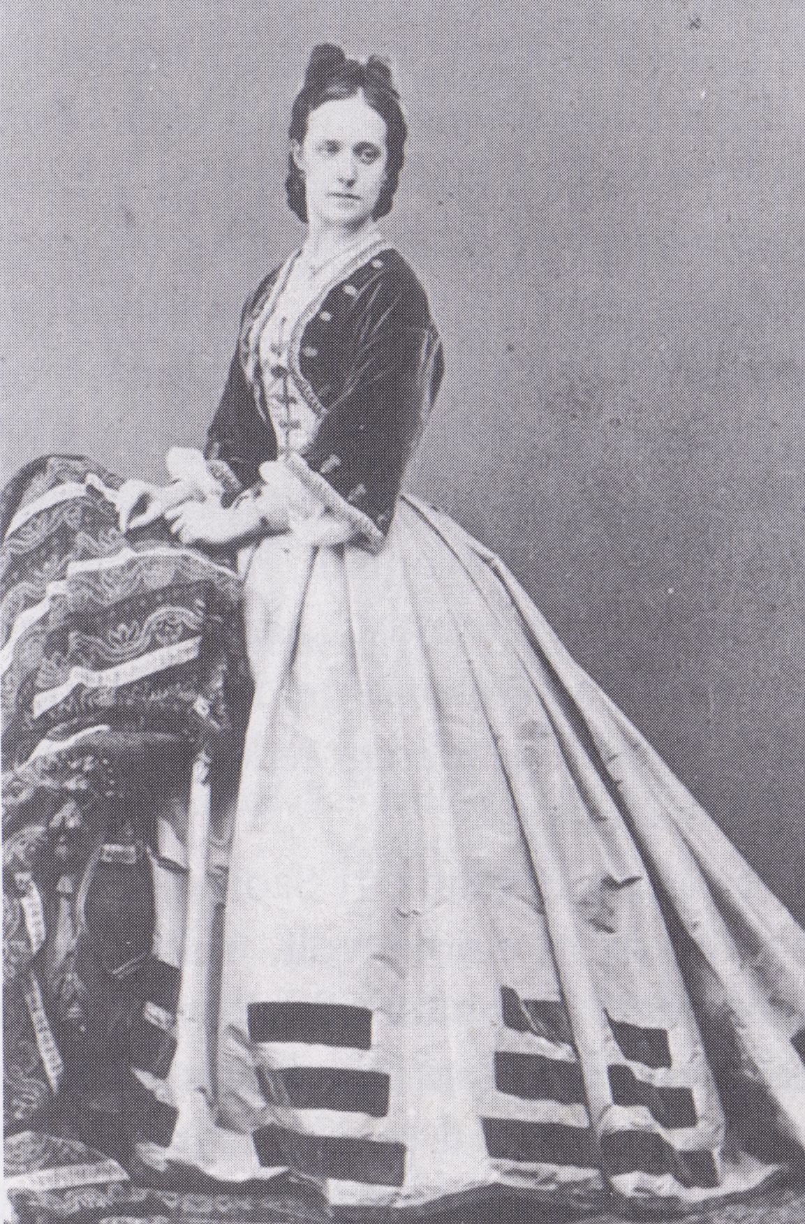 Countess Karolina Festetics, wife of Hungarian Prime Minister Count Gyula Szapáry